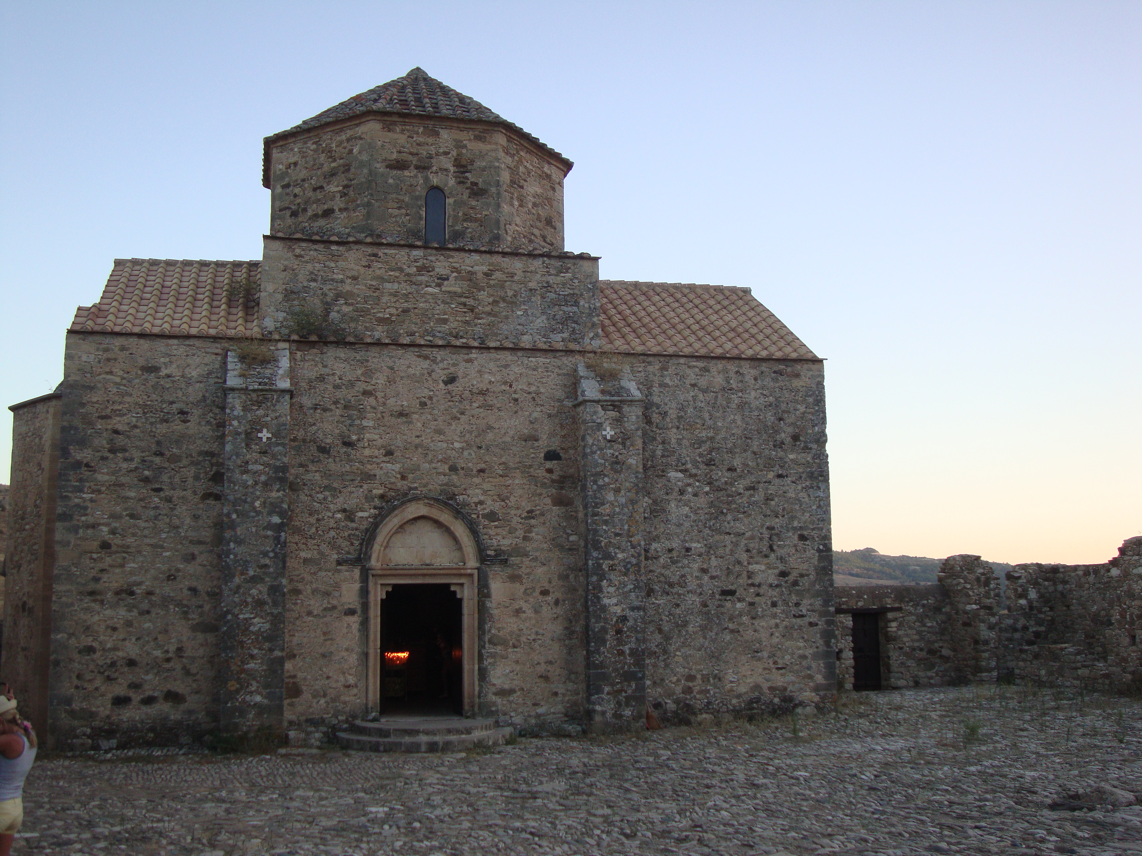 Panagia tou Sinti Monastery.09.2013